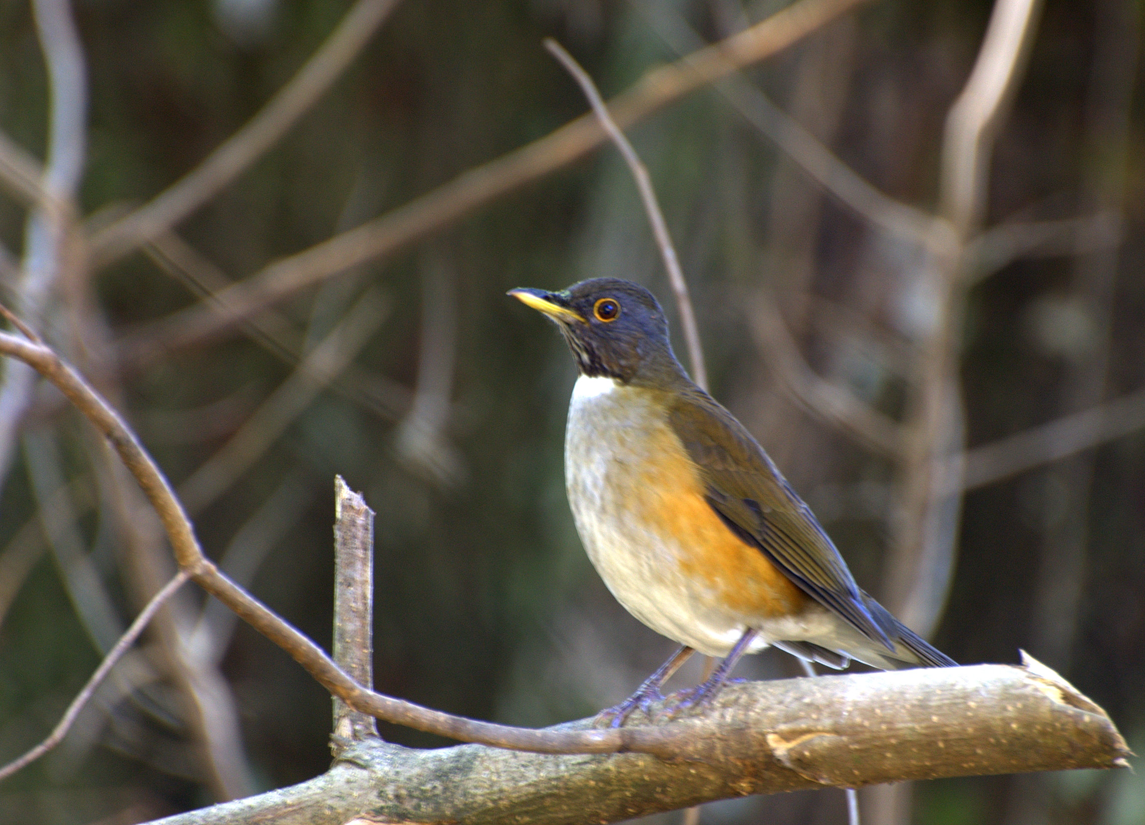 White-necked Thrush, Turdus albicollis Horto Florestal de São Paulo